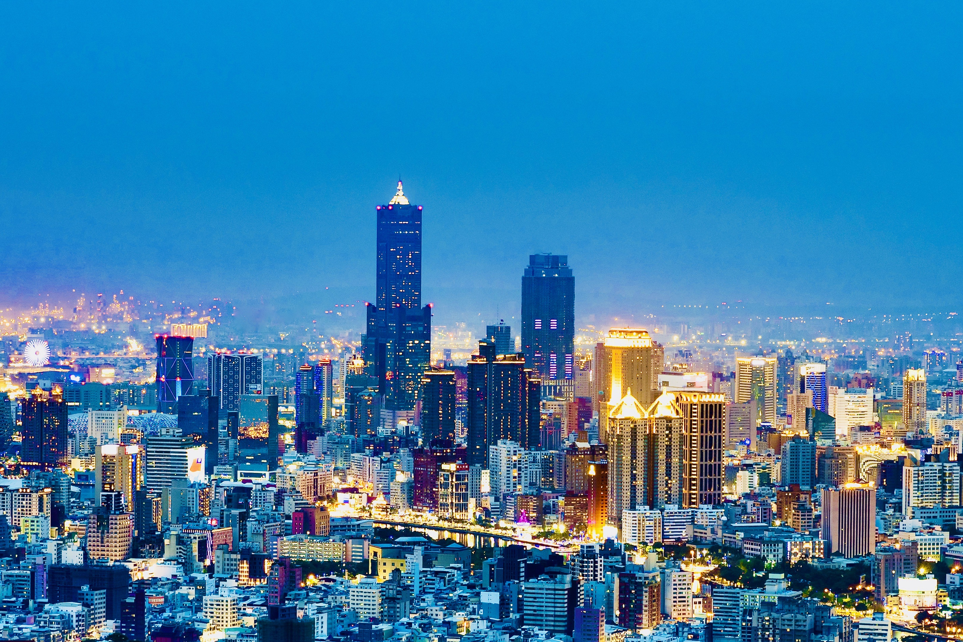 Skyline of Kaohsiung, Taiwan at night taken in 2020 中文（台灣）: 眺望中華民國高雄市夜景天際線（攝於2020年）